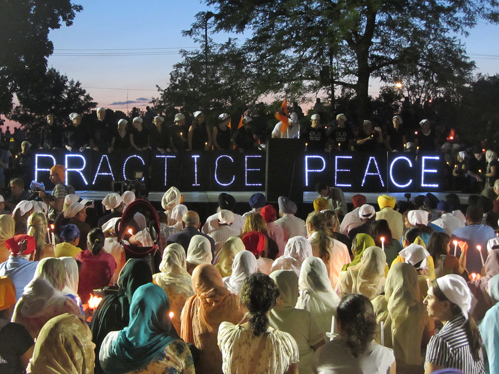 Photograph of the Overpass Light Brigade holding a message at the Sikh temple shooting memorial in Oak Creek, Wisconsin, August 7, 2012.